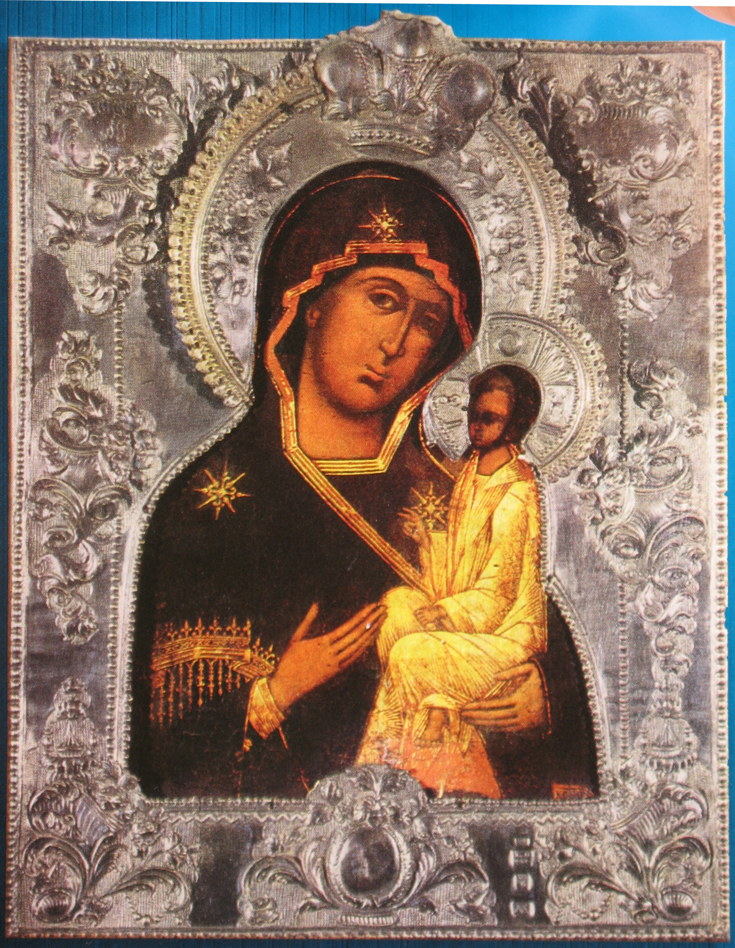 Yug Icon